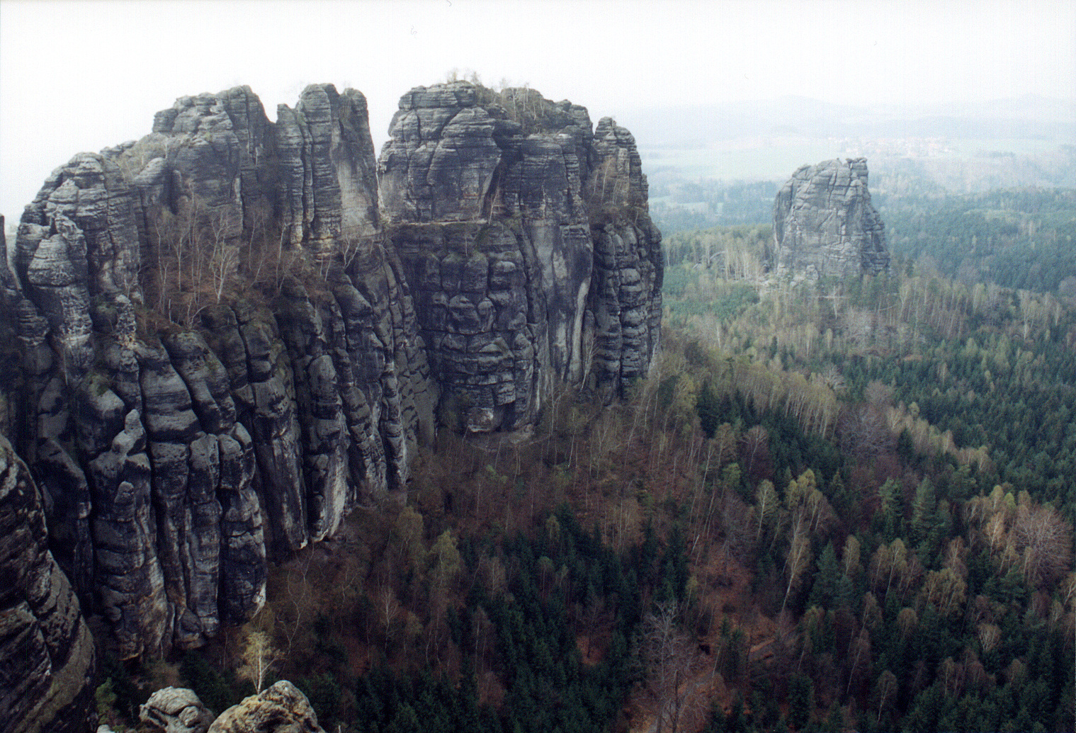 part of the "Schrammsteine" (western end) and "Falkenstein" in the elb sandstone mountains in germany